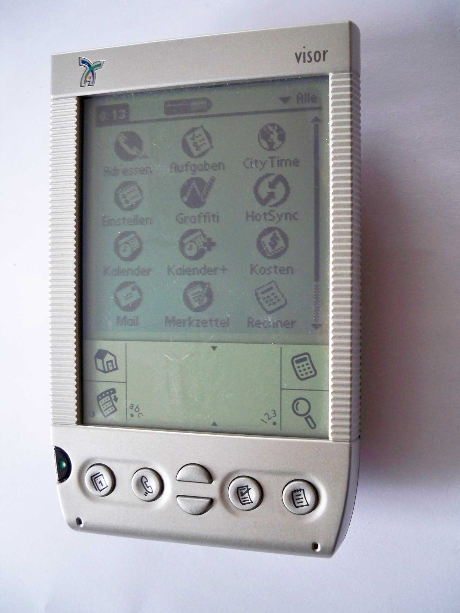 Personal Digital Assistant Handspring Visor Pro